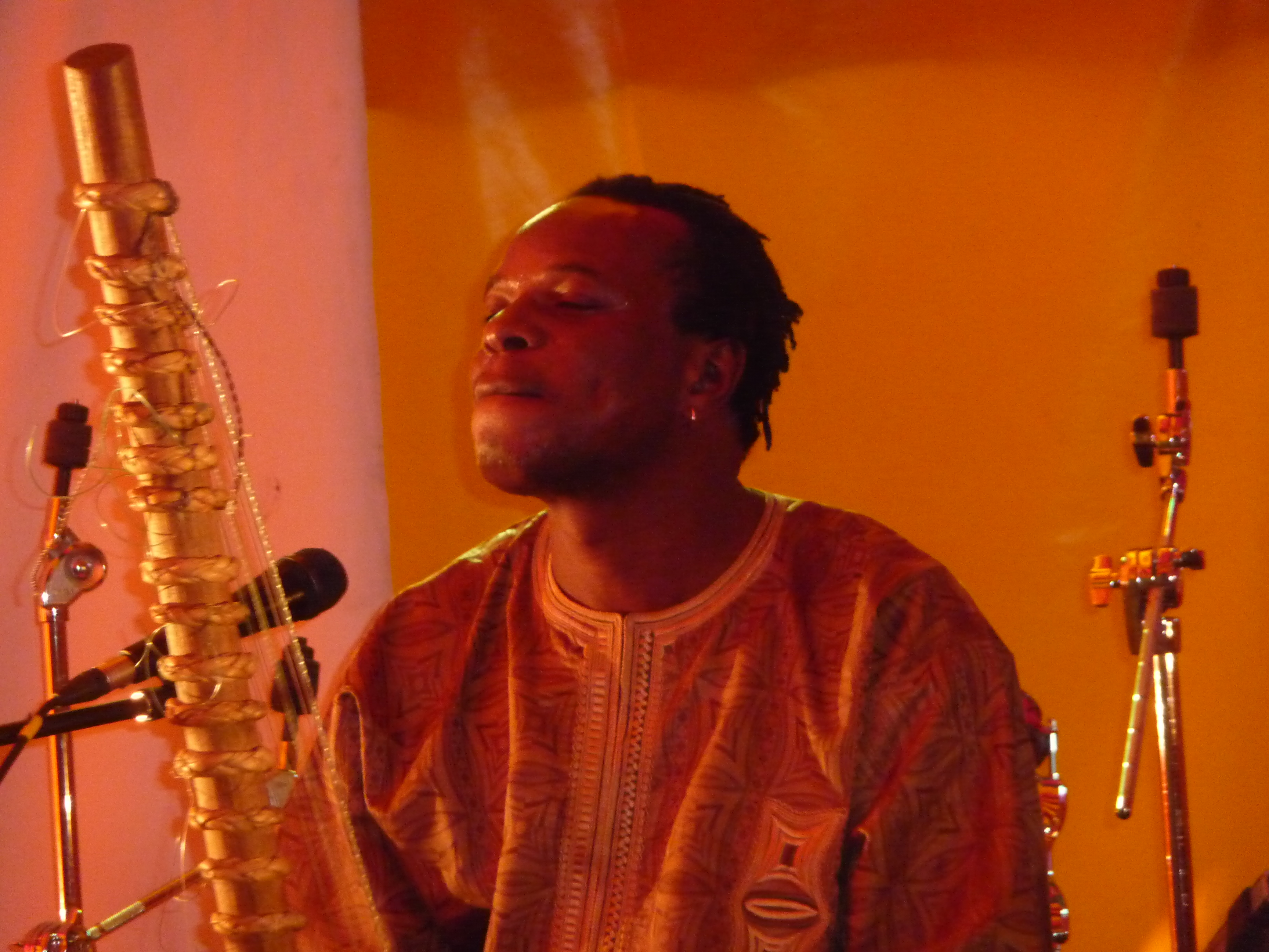 Jali Fily Cisshoko performing at the Wood festival, Braziers Park, Ipsden, Oxfordshire, England